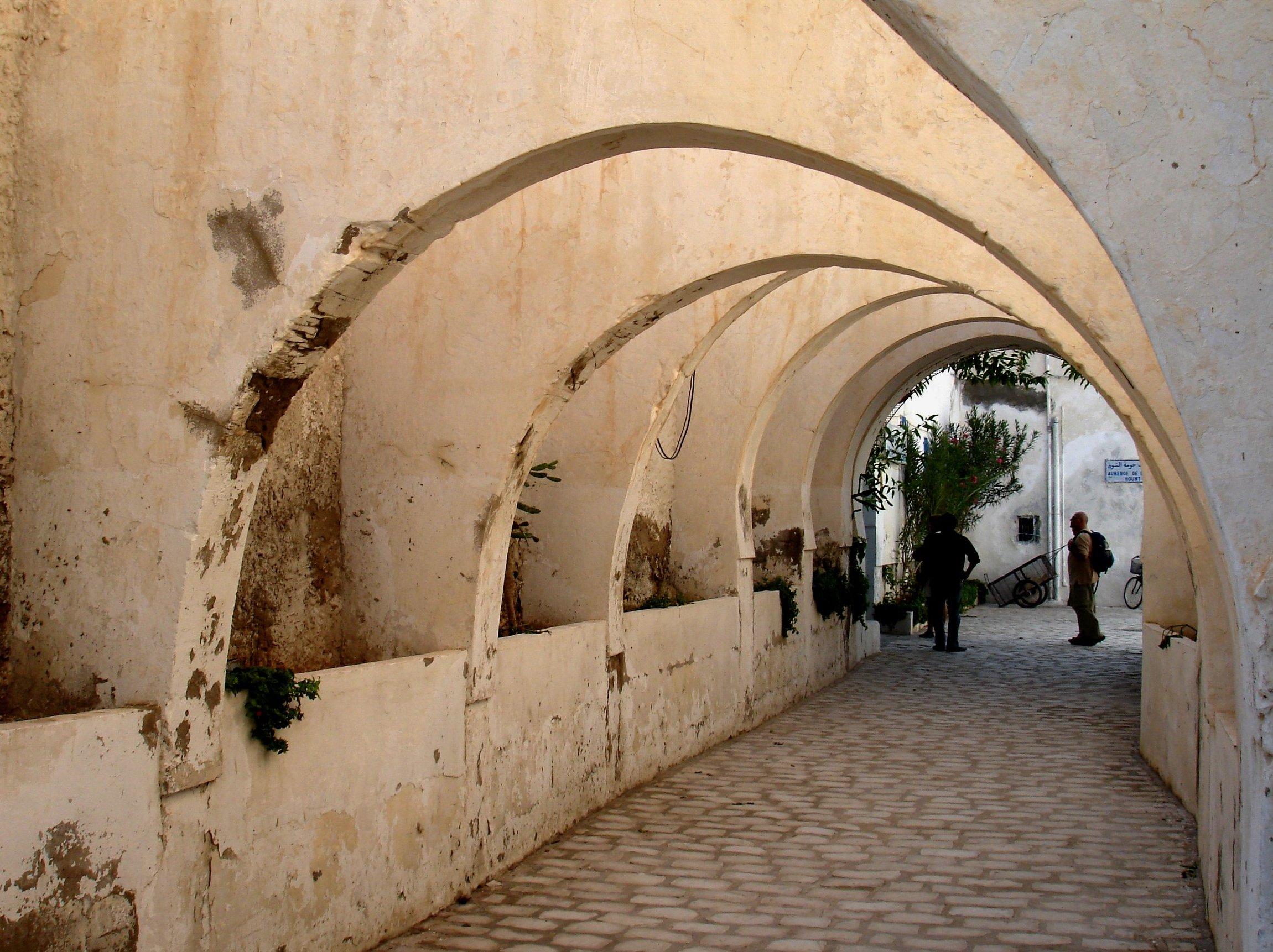 Houmt Souk